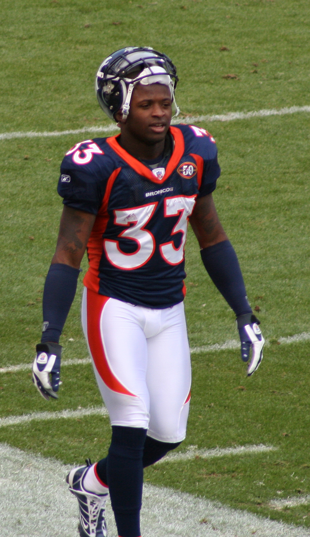 Alphonso Smith, a player on the Denver Broncos American football team.